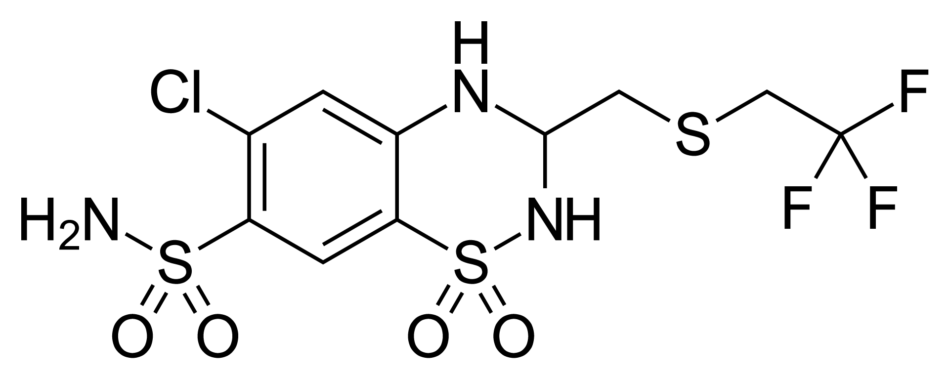 chemical structure of Epitizide